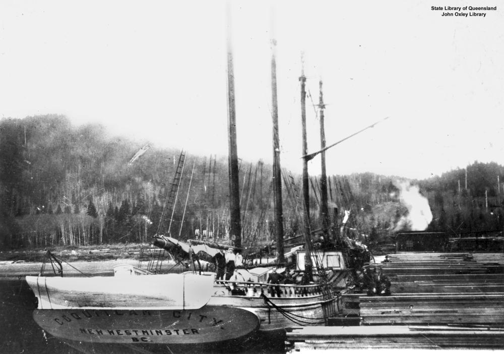 Coquitlam City (ship)